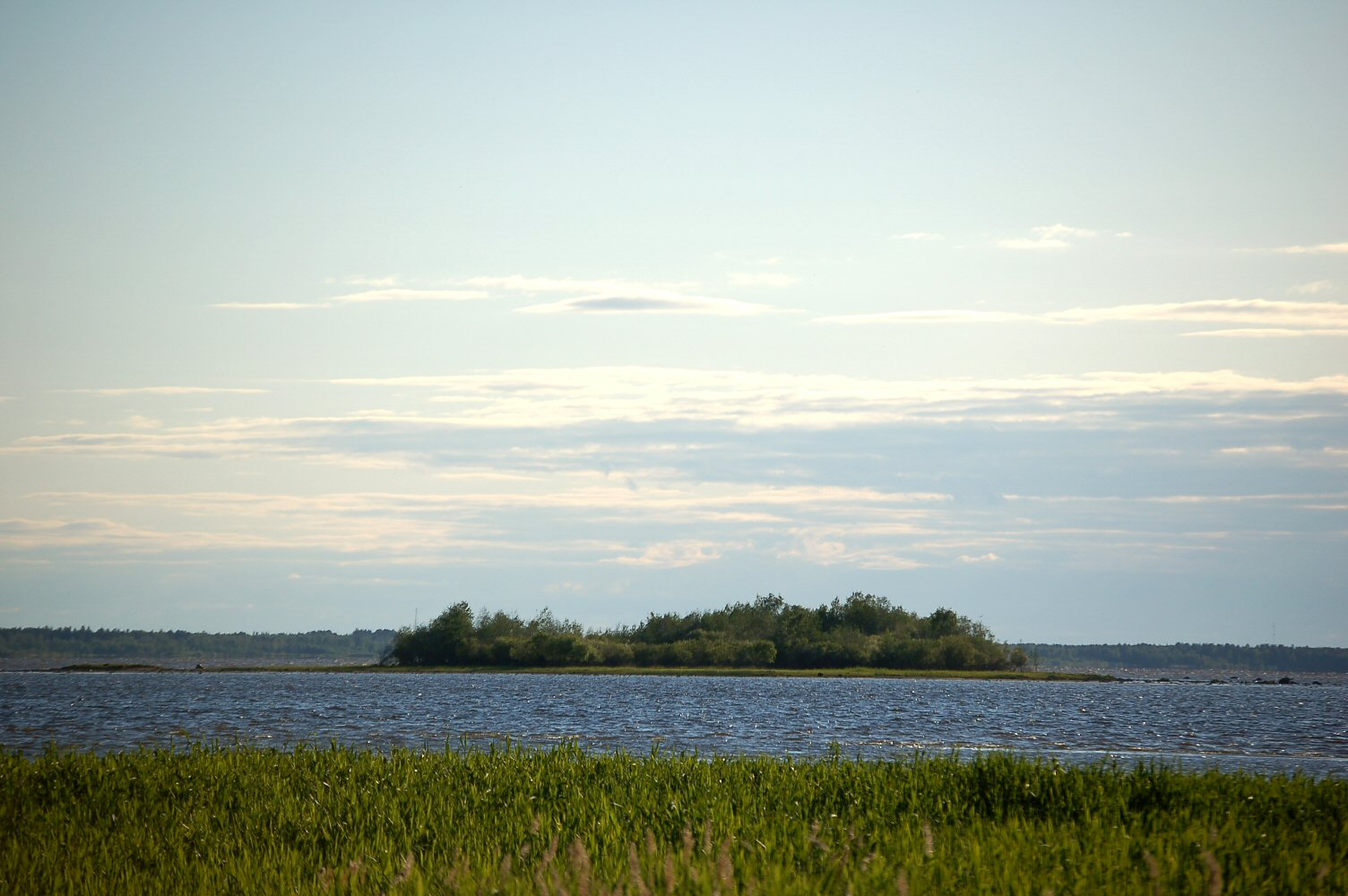 Selkäkari island on Kempeleenlahti in Oulu, Finland.